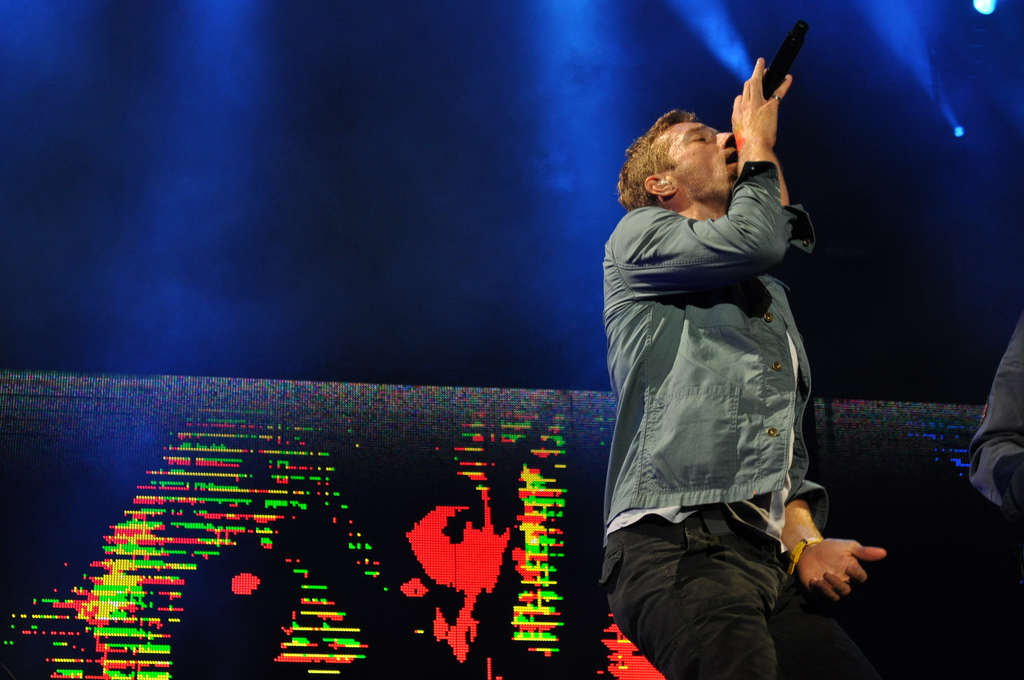 Chris Martin of Coldplay @ Music Midtown (Piedmont Park) in Atlanta, GA on September 24, 2011.